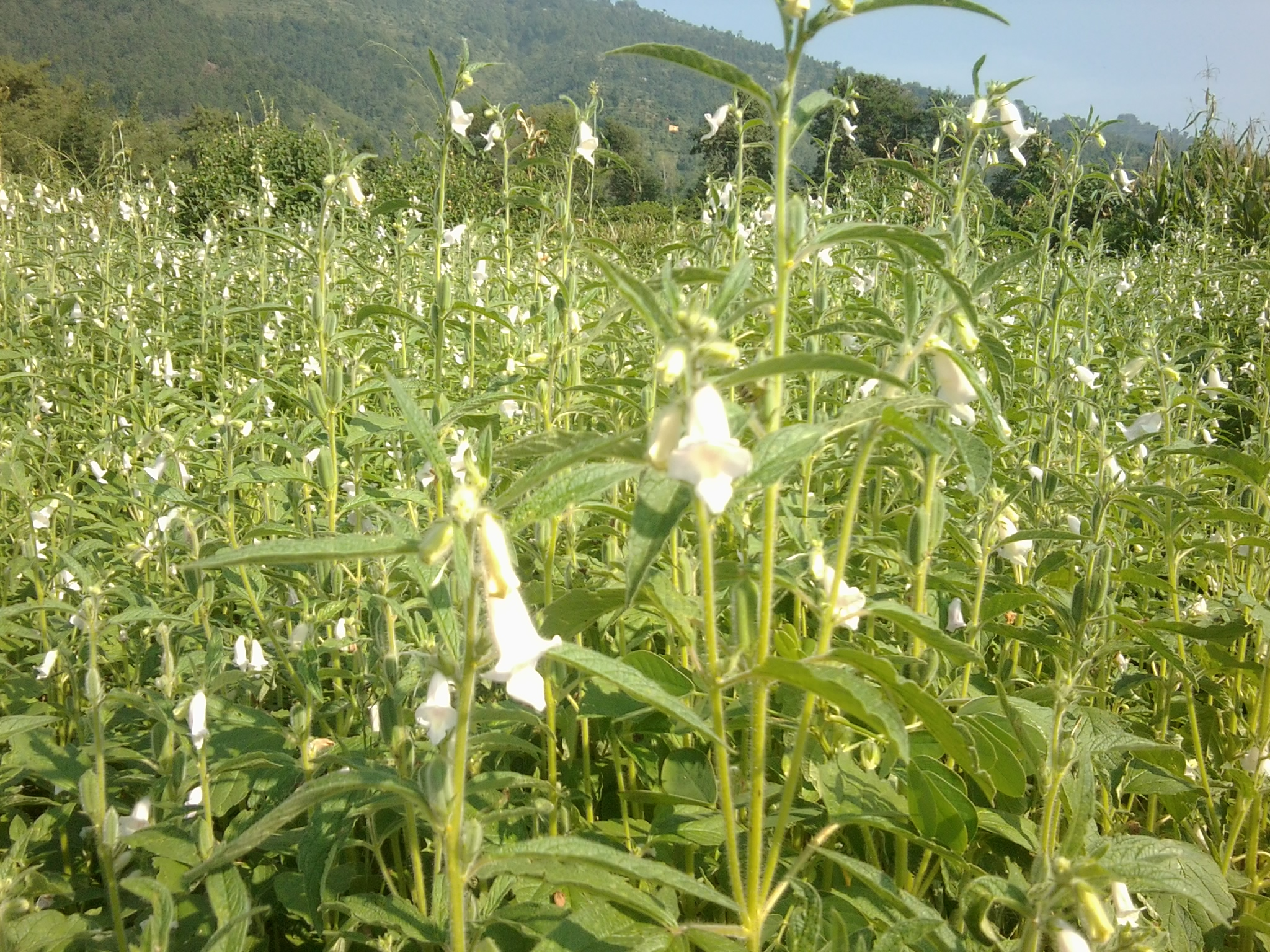 Sesamum indicum in Panchkhal Valley in Nepal.